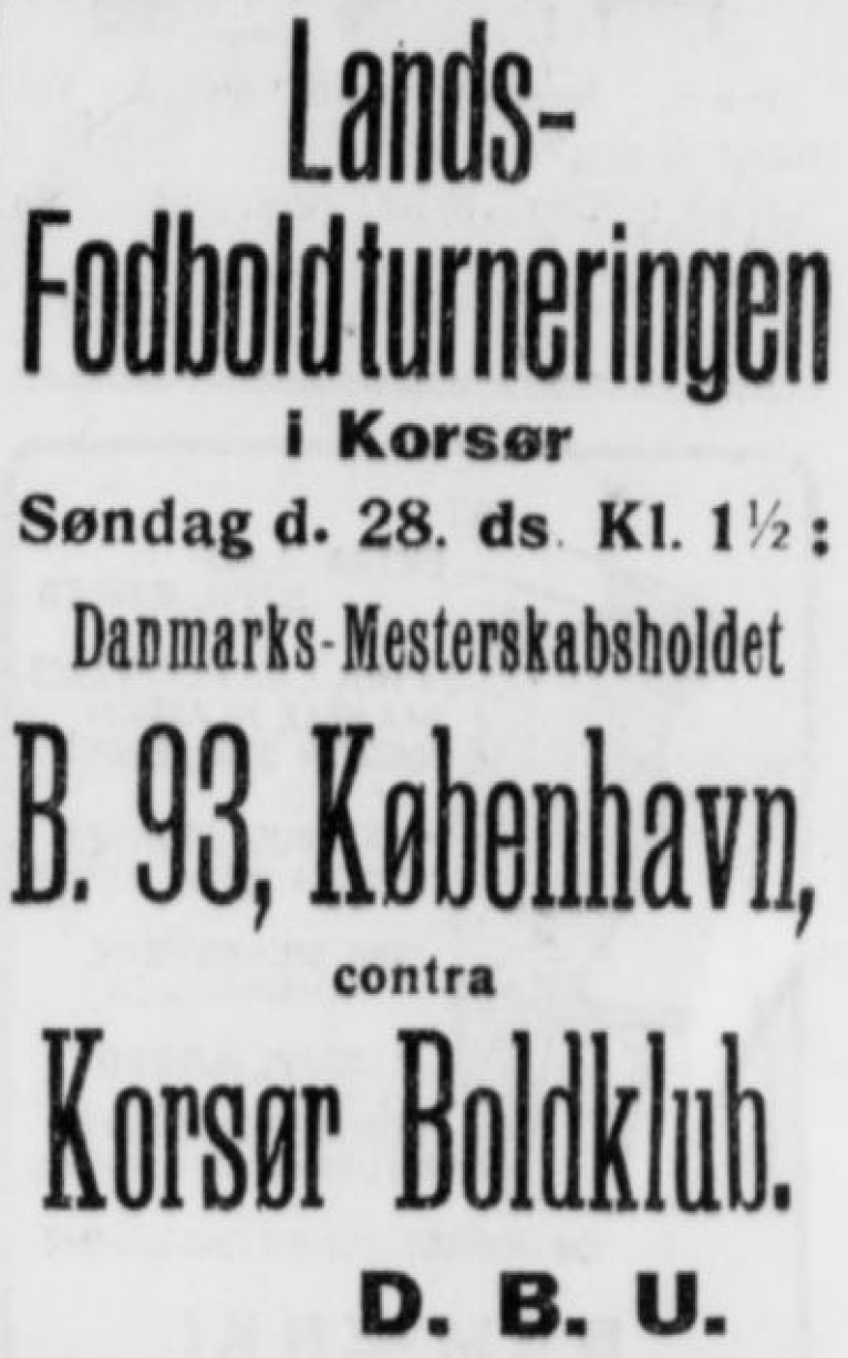 Advertisement for the one of four matches played on the first match day of 1927–28 Danmarksmesterskabsturneringen - The text reads: Lands-Fodboldturneringen i Korsør — Søndag d. 28. ds. Kl. 1½: Danmarks-Mesterskabsholdet B. 93, København, contra Korsør Boldklub. D. B. U.